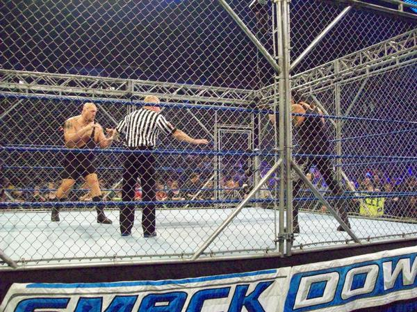 Cage Match Face Off